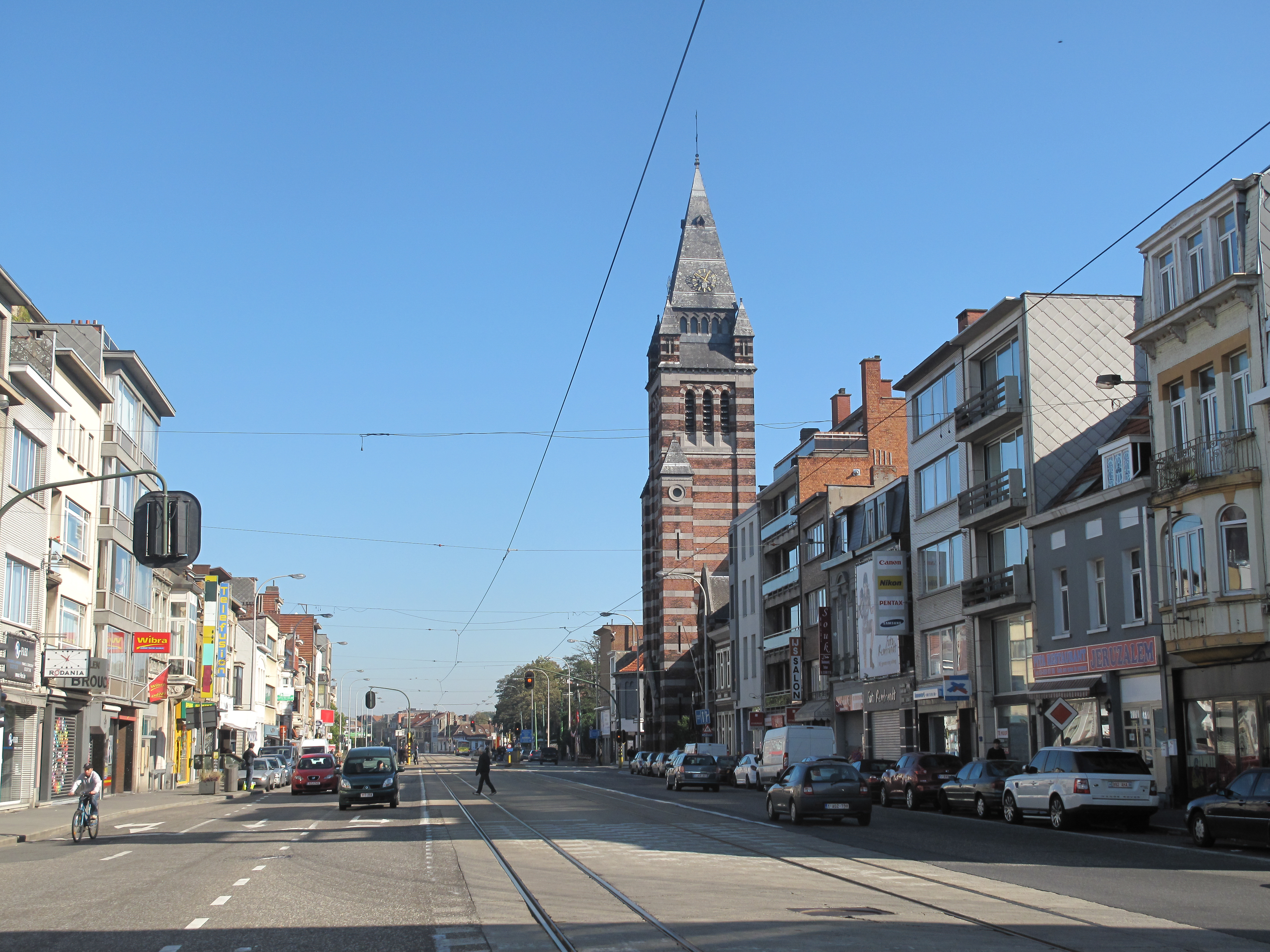 Merksem, view to a street with a church